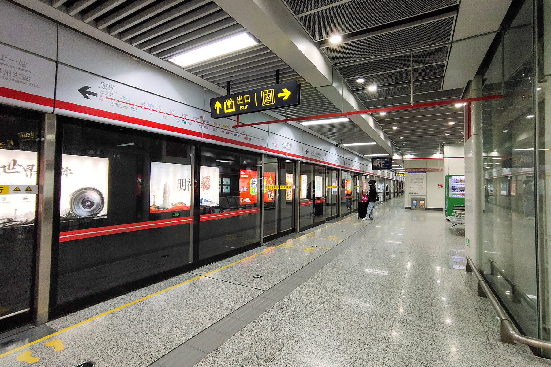 Platform of Dongfengnanlu Station